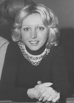 Mónica Jouvet-actriz argentina